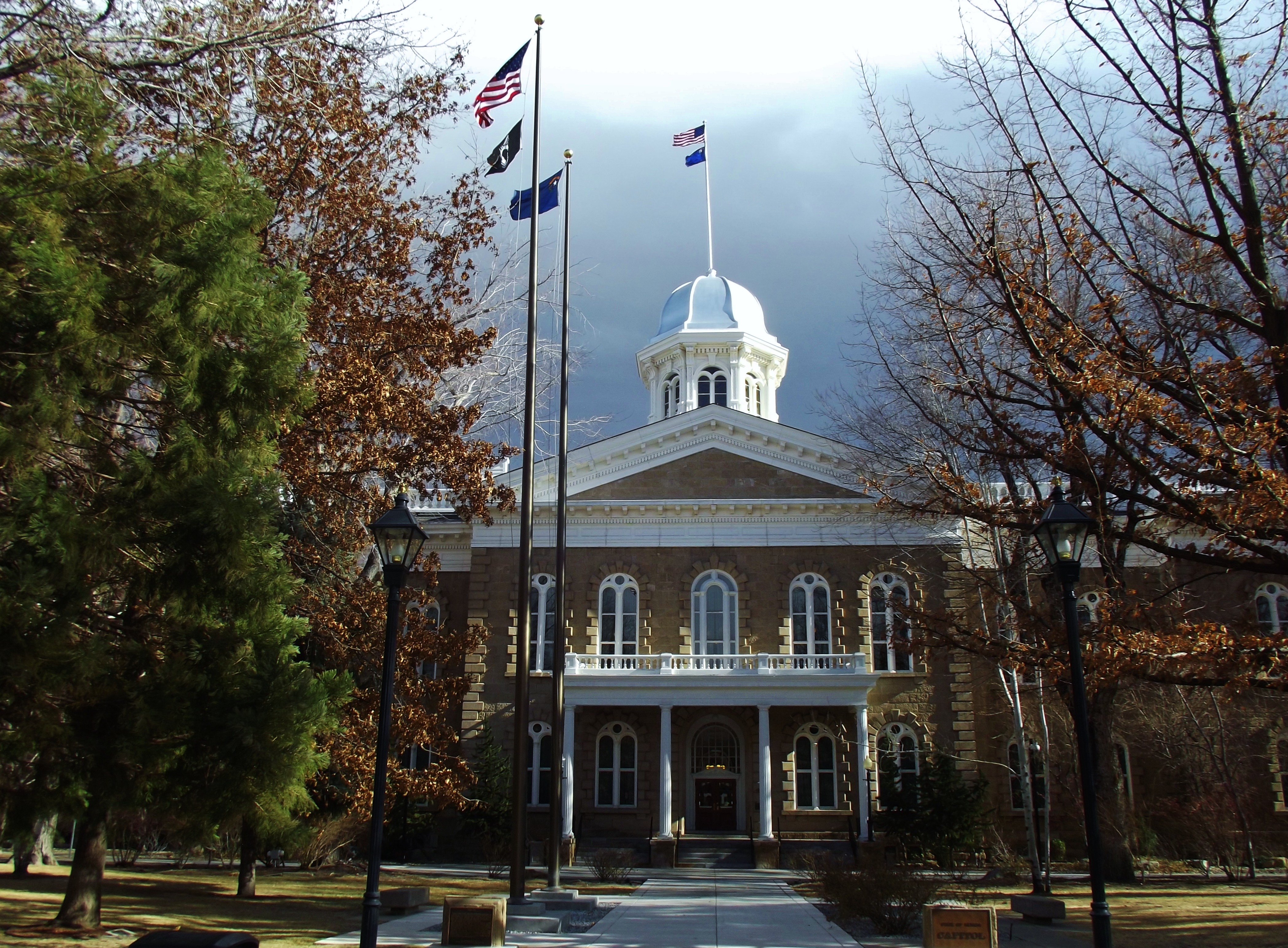 Smoke fom a nearby Washoe Drive fire fire rises in the cloud bank behind the Nevada State Capitol.